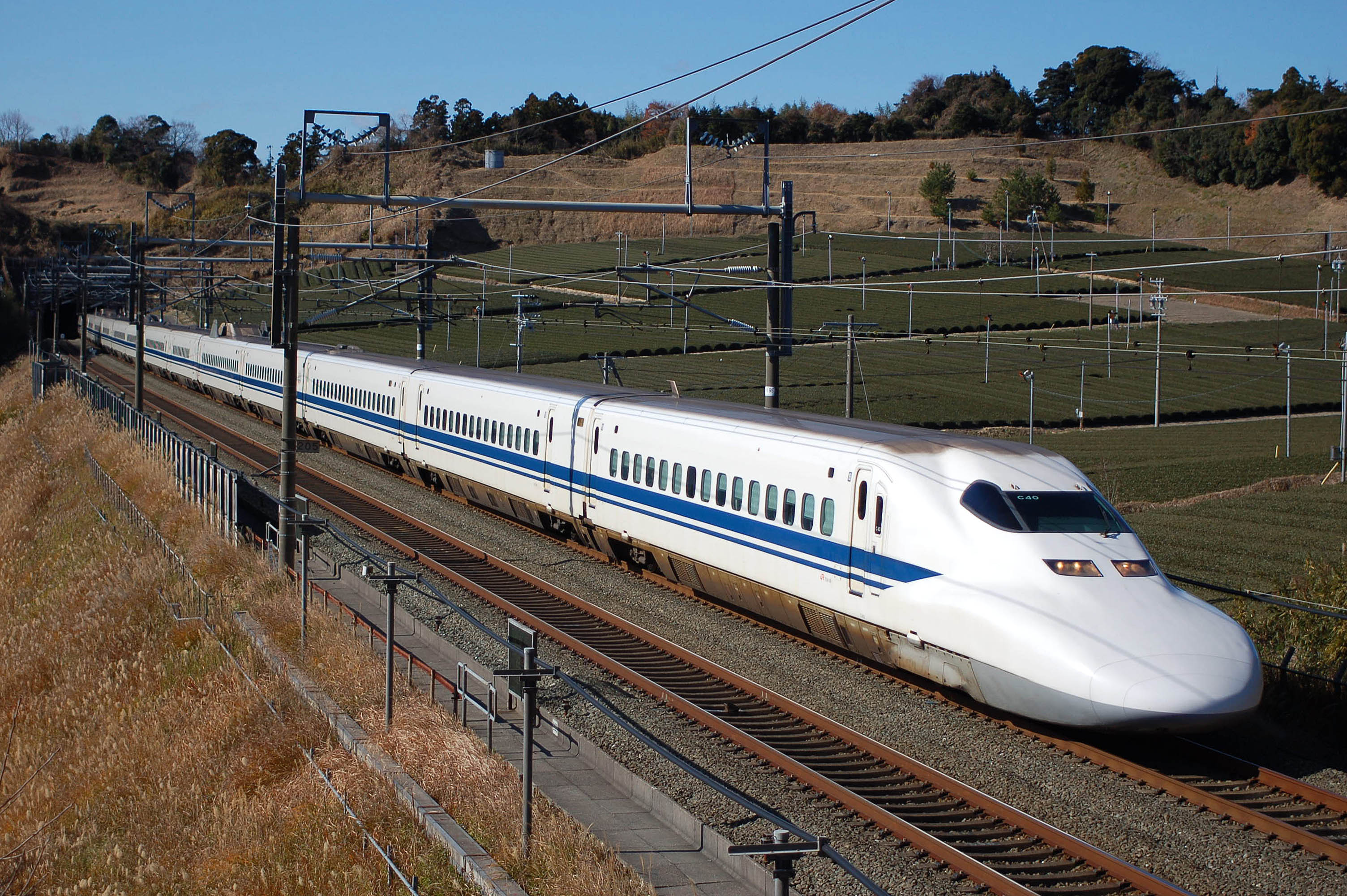 JR Central 700 Series Shinkansen set C40 on the Tōkaidō Shinkansen between Kakegawa and Shizuoka Station